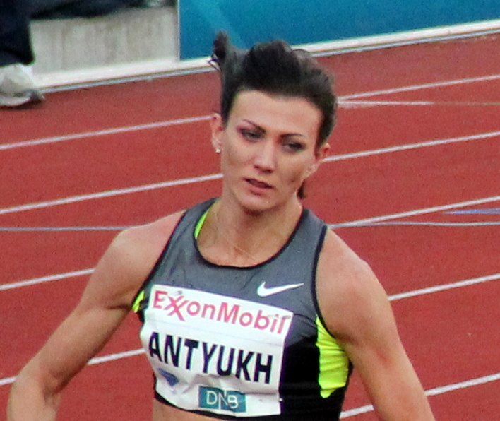 Natalya Antyukh at the 2012 Bislett Games